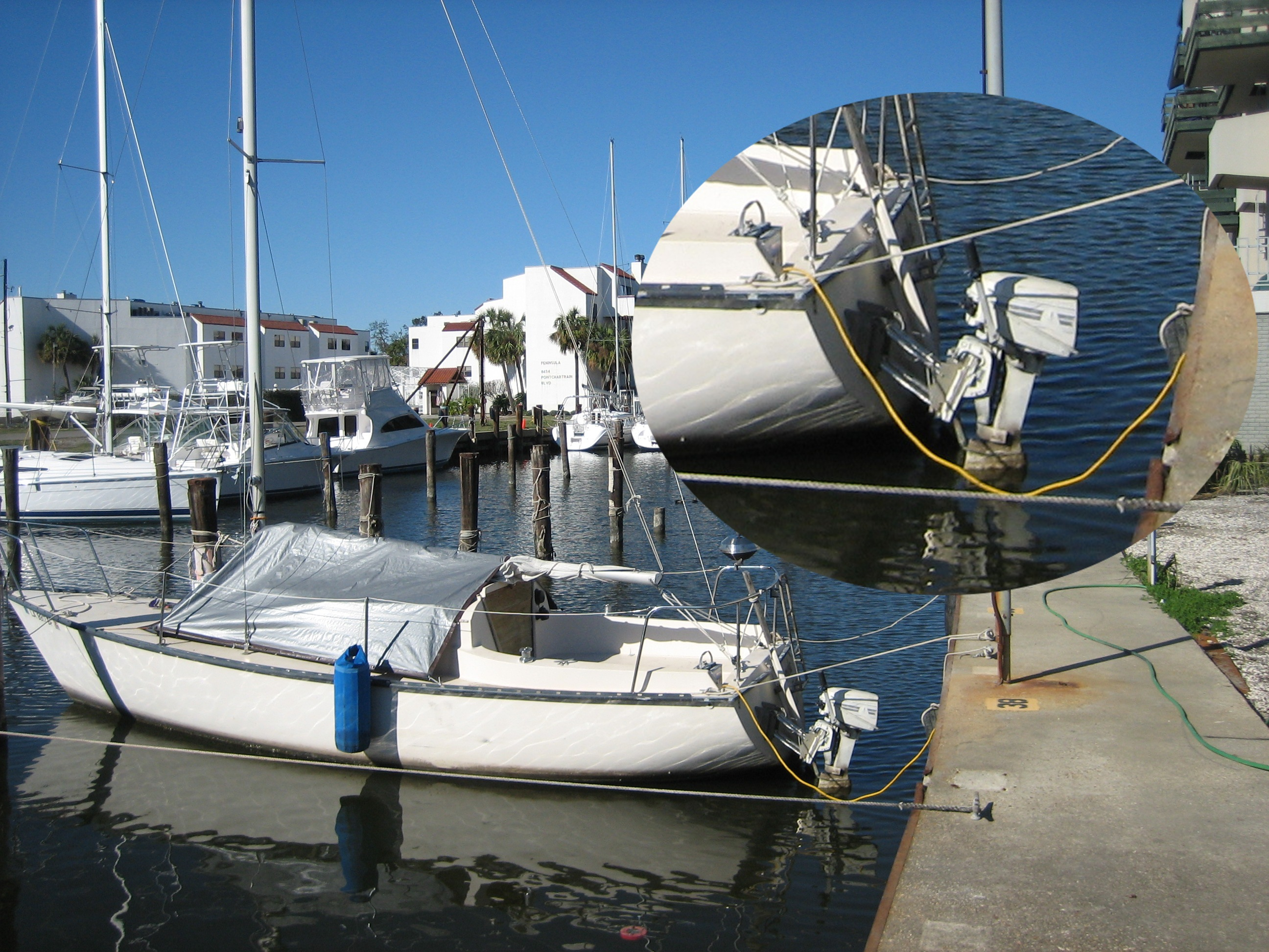 Base for outboard motor enlarged